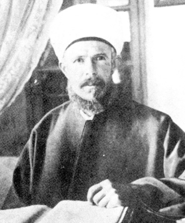 Portrait of Kamil al-Husayni, former Grand Mufti of Jerusalem